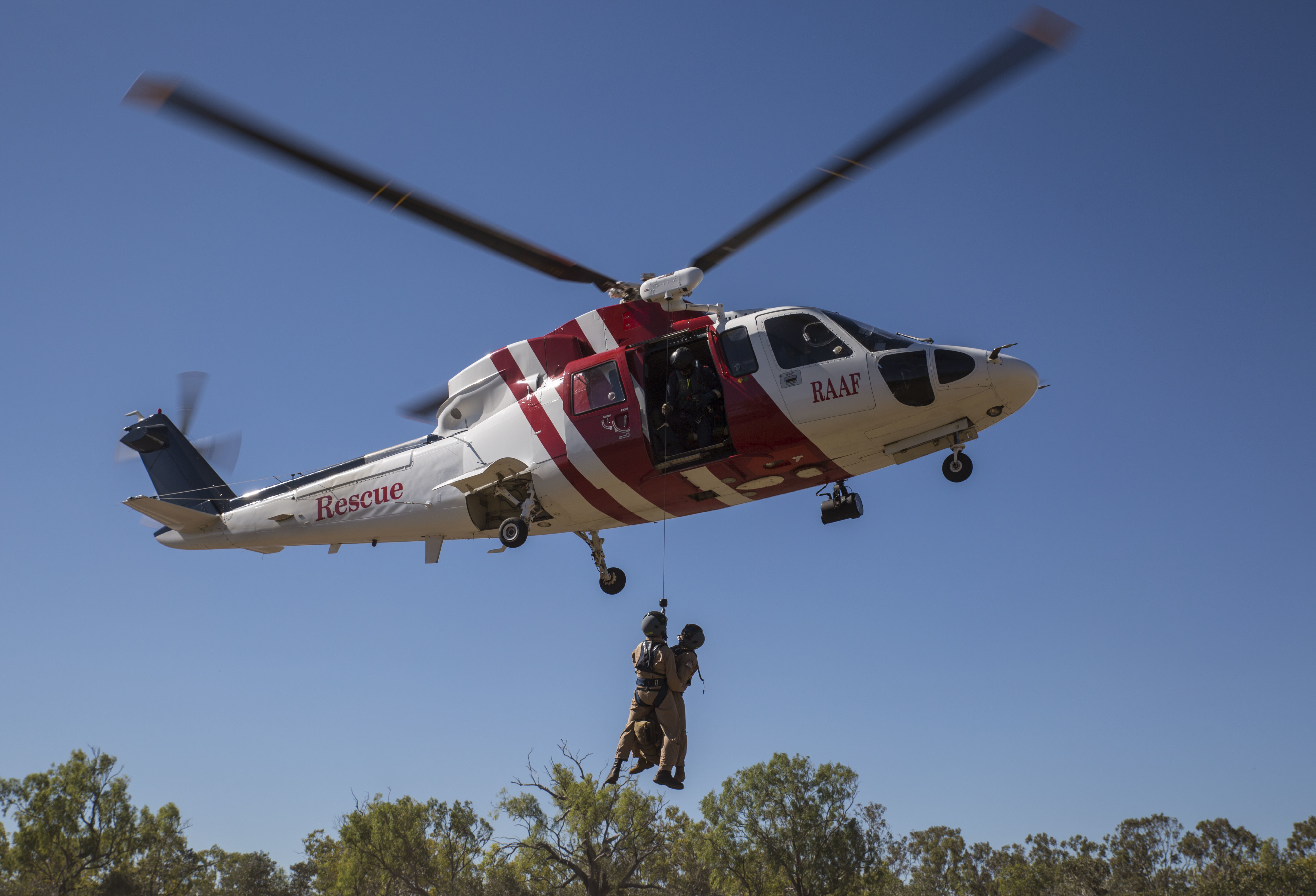 Marine Fighter Attack Squadron (VMFA) 122 U.S. Navy Lt. Matthew Case, flight surgeon, and U.S. Navy Petty Officer 3rd Class Juan Garcia, hospital corpsman, are hoisted into a Sikorsky S76A++ Search and Rescue helicopter while conducting SAR training during Exercise Pitch Black 2016 at Royal Australian Air Force Base Tindal, Australia, Aug. 16, 2016. The SAR team trains with local and international forces during exercises like Pitch Black to ensure all medical personnel that can respond to an aircraft emergency are capable of carrying out the same procedures. The biennial, multinational exercise involves approximately 10 allied nations and prepares these forces for possible real-world scenarios. The bilateral effort amongst Exercise Pitch Black 2016 furthermore showcases the strength amongst various militaries and solidifies the relationship across the Pacific region. (U.S. Marine Corps photo by Cpl. Nicole Zurbrugg)